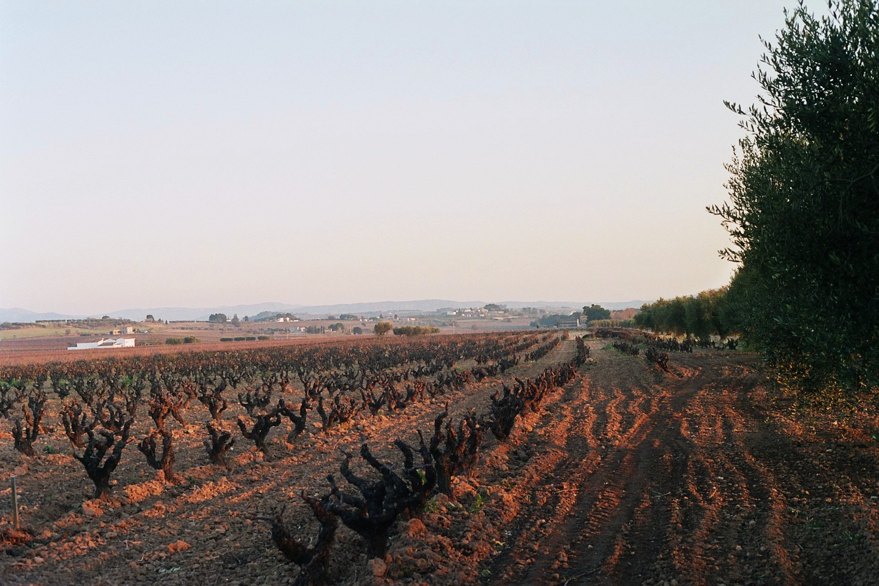 The Penedès region of Catalonia and its vineyards.